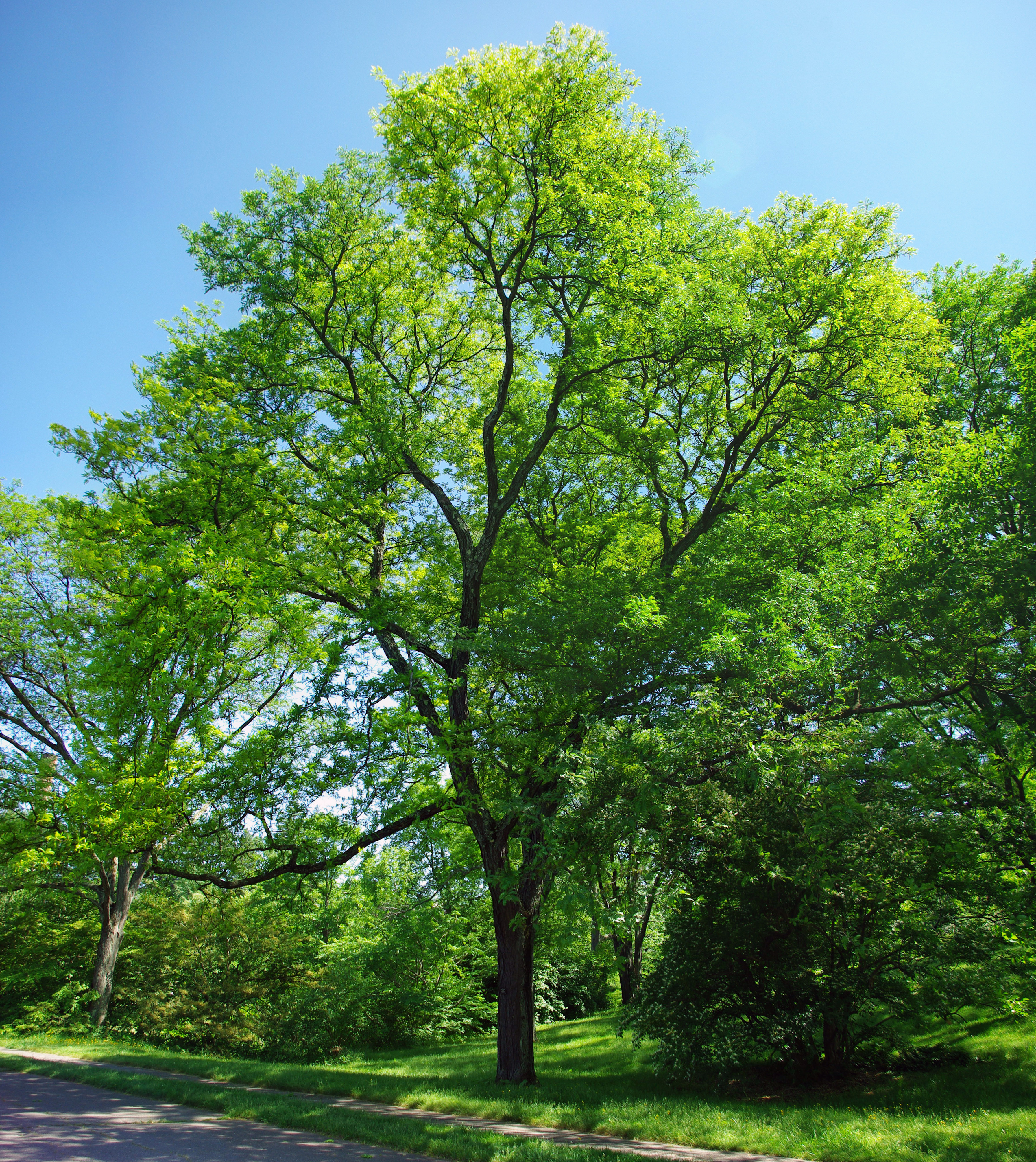 Gleditsia triacanthos, Arnold Arboretum, Boston (MA)